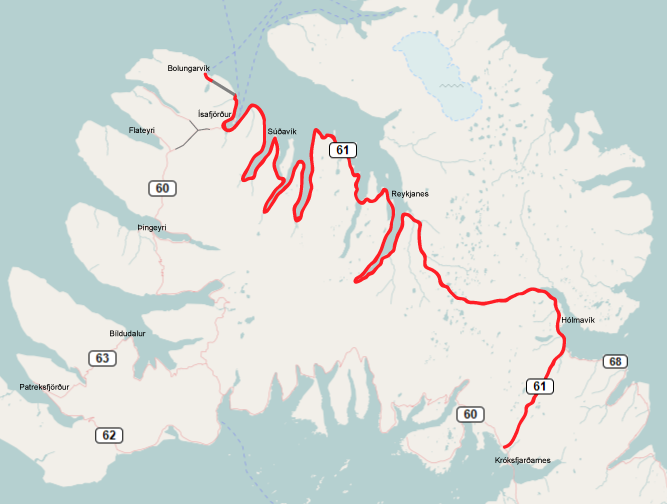 Road 61 in Iceland marked in red, with tunnels in grey. This map may be incomplete, and may contain errors.